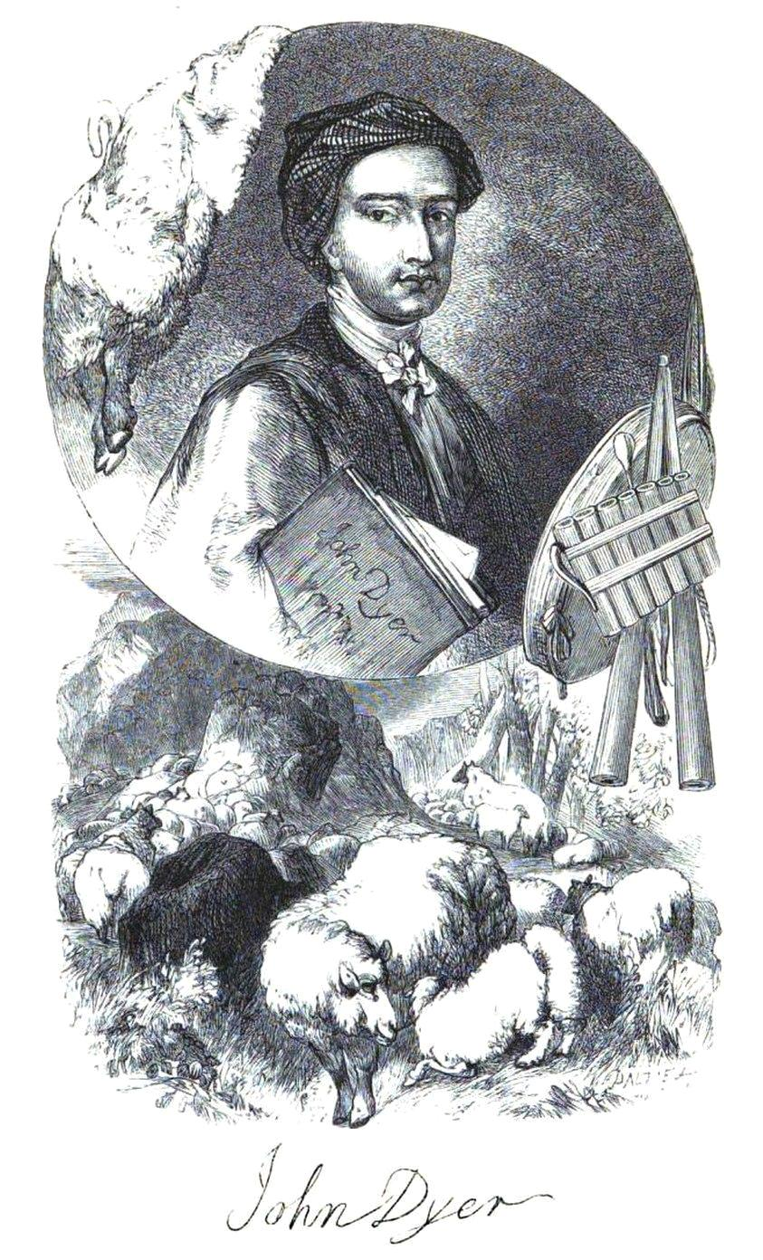 Portrait of the poet John Dyer provided by his relative W. H. Longstaffe and incorporated into a design engraved by the Brothers Dalziel. It appeared in “The Poems of Mark Akenside and John Dyer”, ed. Robert Aris Wilmott, London 1855.